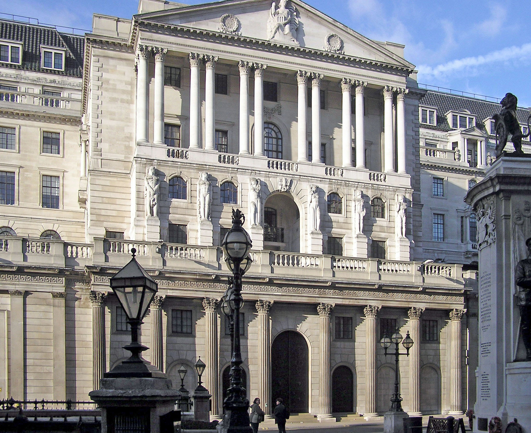 The Bank of England in Threadneedle Street, London.